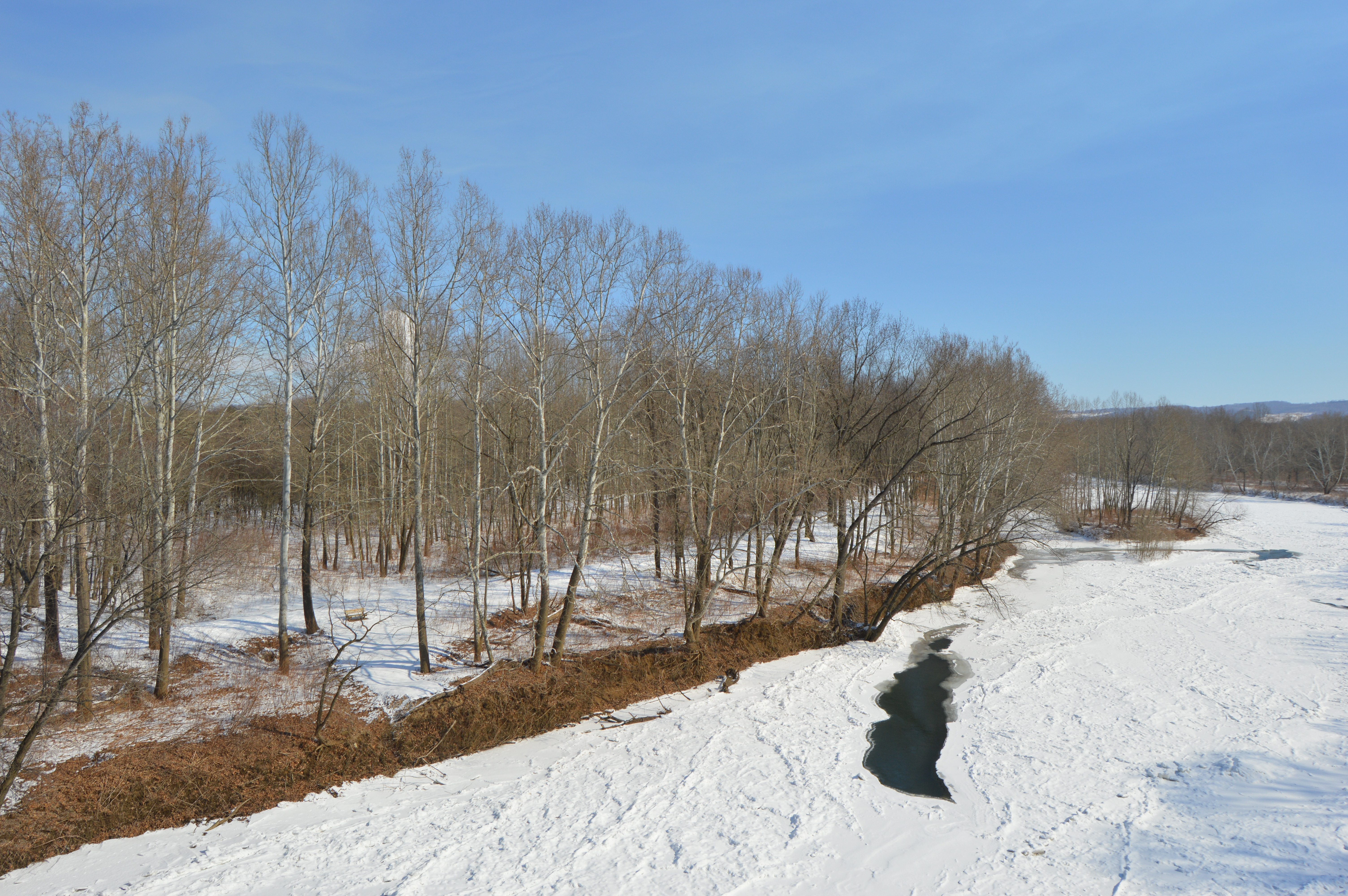 Northern side of the mostly frozen Conemaugh River south of Blairsville in Burrell Township, Indiana County, Pennsylvania, United States. Photo looks northeast from the Pennsylvania Route 217 bridge.